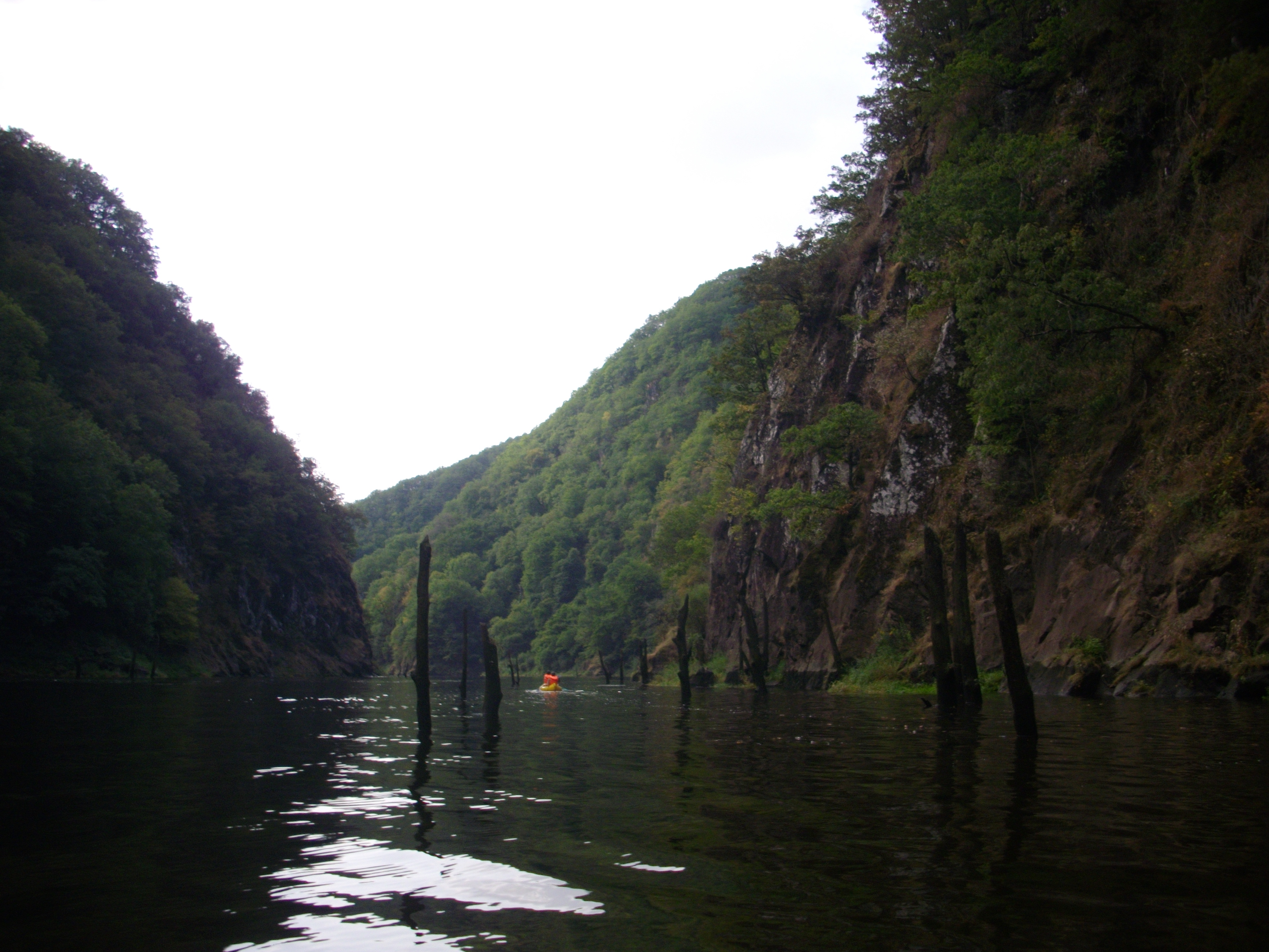 Dead trees on Dordogne river, in Marèges dam's reservoir, between Saint-Julien-près-Bort (Corrèze) and Saint-Pierre (Cantal)